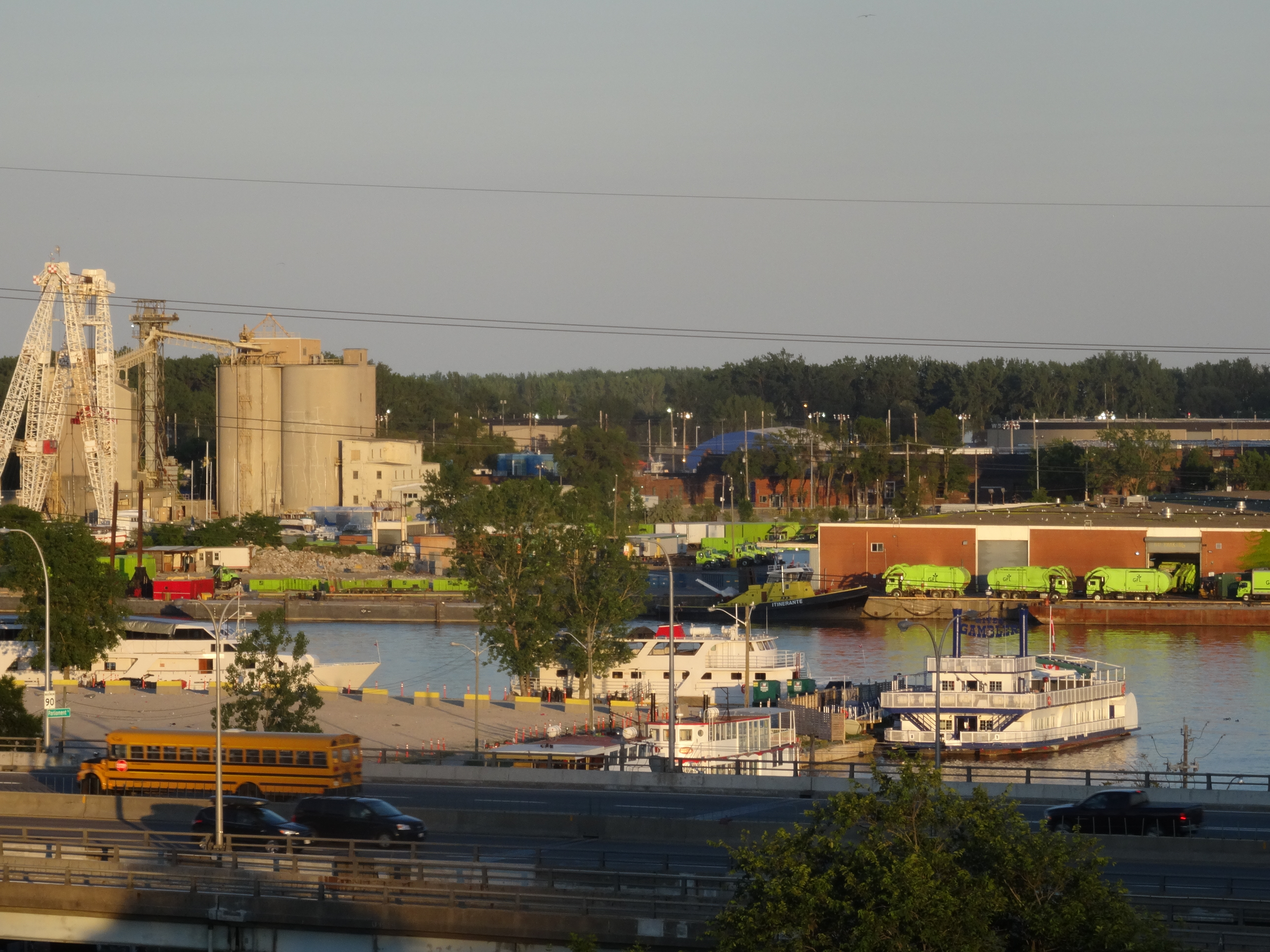 Silos on Toronto's Portlands, 2015 07 02 (1).JPG